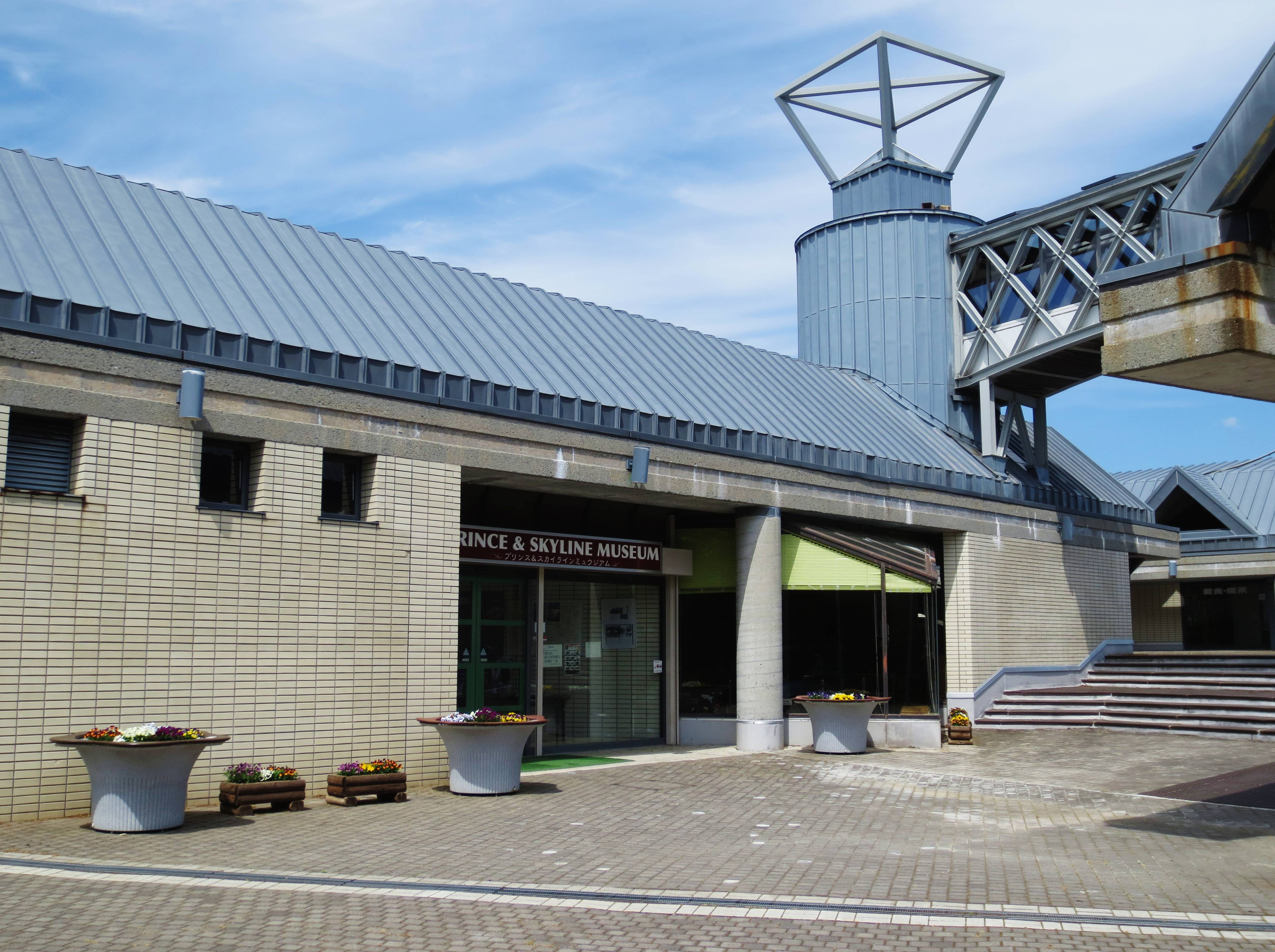 Prince & Skyline Museum.